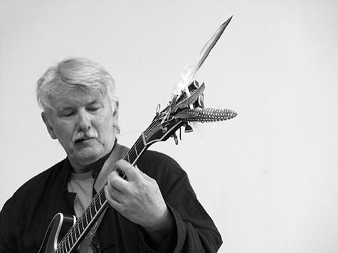 Pierre Dørge